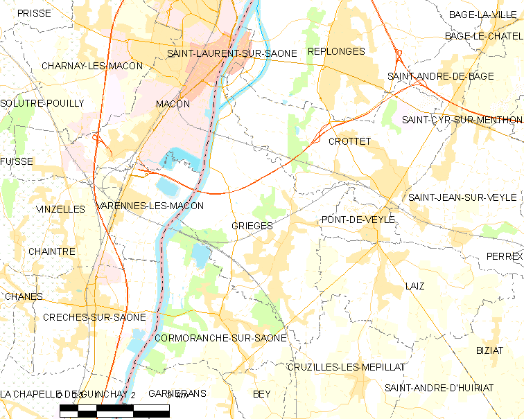 Map of French commune: Grièges Map commune FR insee code 01179.png